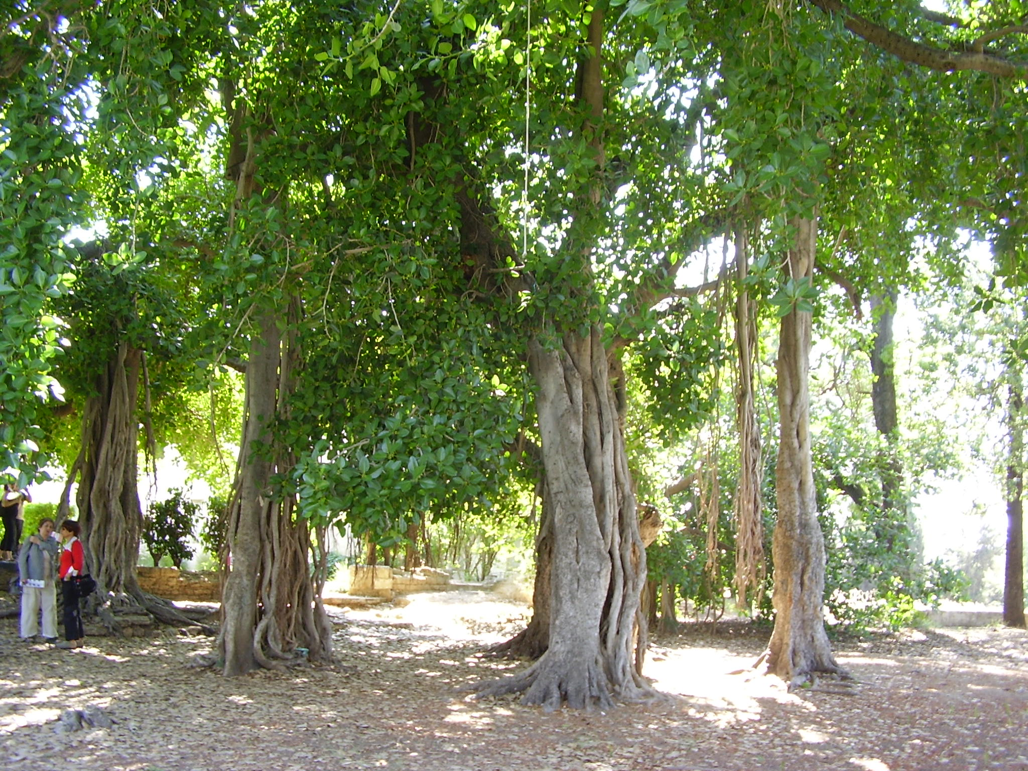 bengal ficus in mikve israel